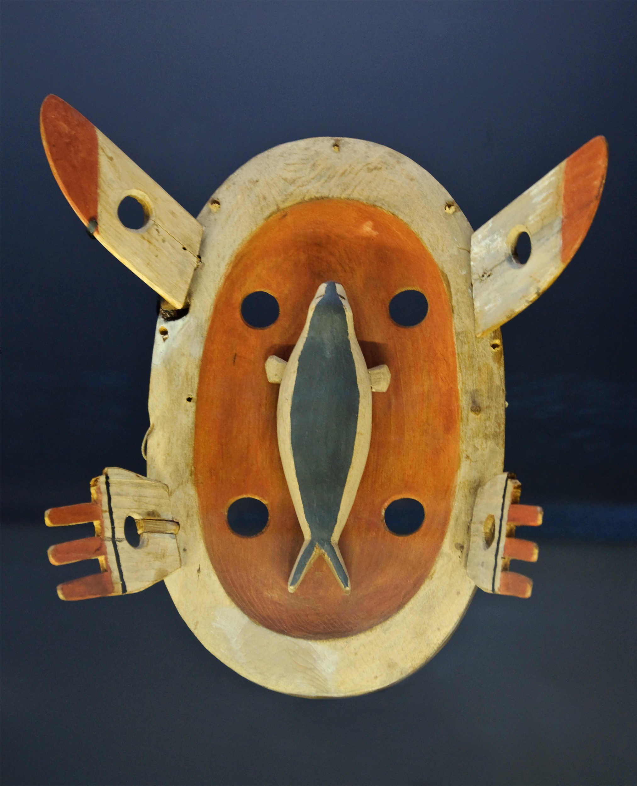 Yup'ik maskAlaska, wood - Sitka, Alaska, United States. Alaska State Museum (II-A1-1511).Presented during the exhibition La Fabrique des images (The Making of images)- Musée du quai Branly, Paris (February 16, 2010 - July 17, 2011)